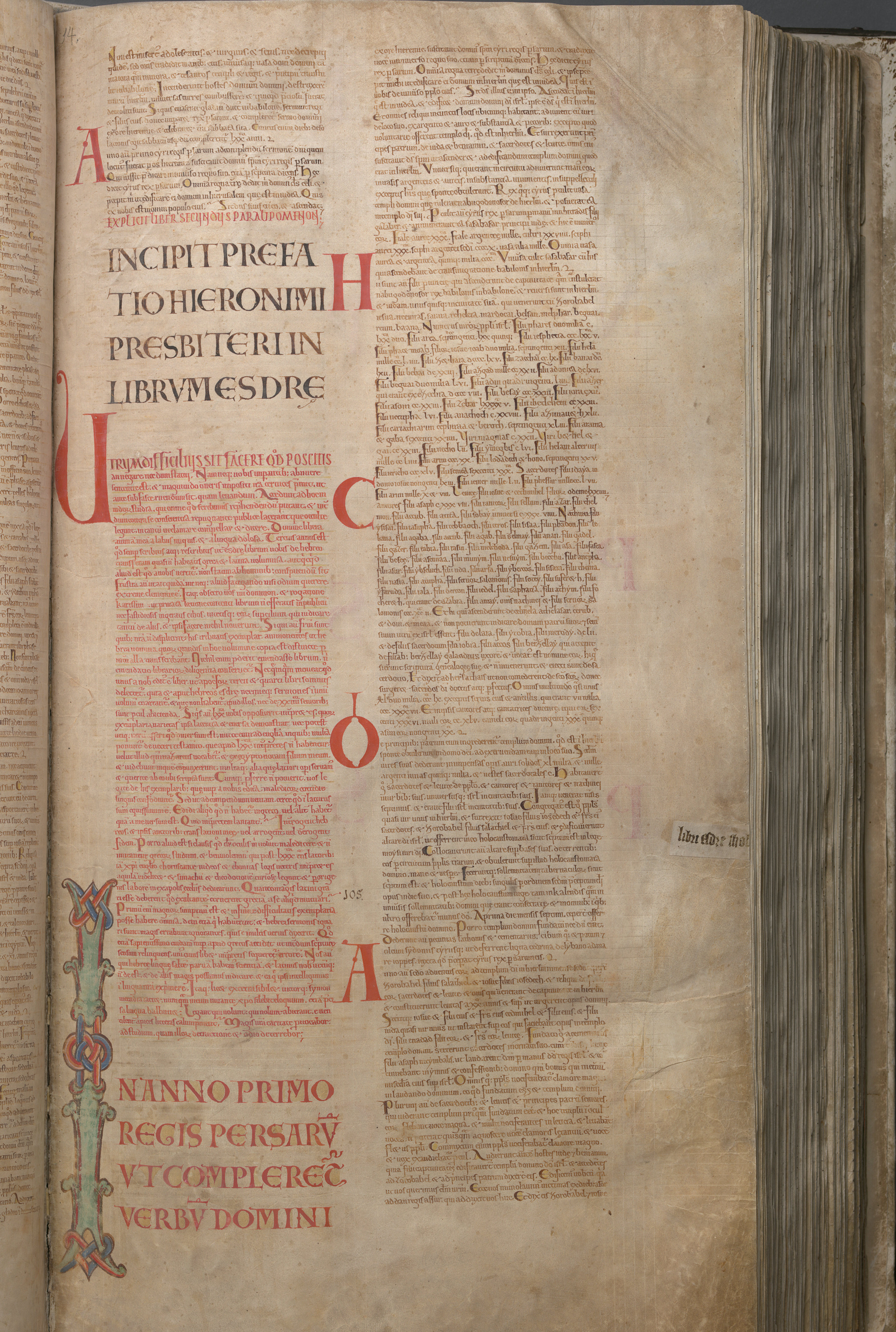 Giant Book), the largest extant medieval manuscript in the world. It is also known as the Devil's Bible because of a large illustration of the devil on the inside and the legend surrounding its creation. It is thought to have been created in the early 13th century in the Benedictine monastery of Podlažice in Bohemia (modern Czech Republic). It contains the Vulgate Bible as well as many historical documents all written in Latin. During the Thirty Years' War in 1648, the entire collection was taken by the Swedish army as plunder, and now it is preserved at the National Library of Sweden in Stockholm, though it is not normally on display.